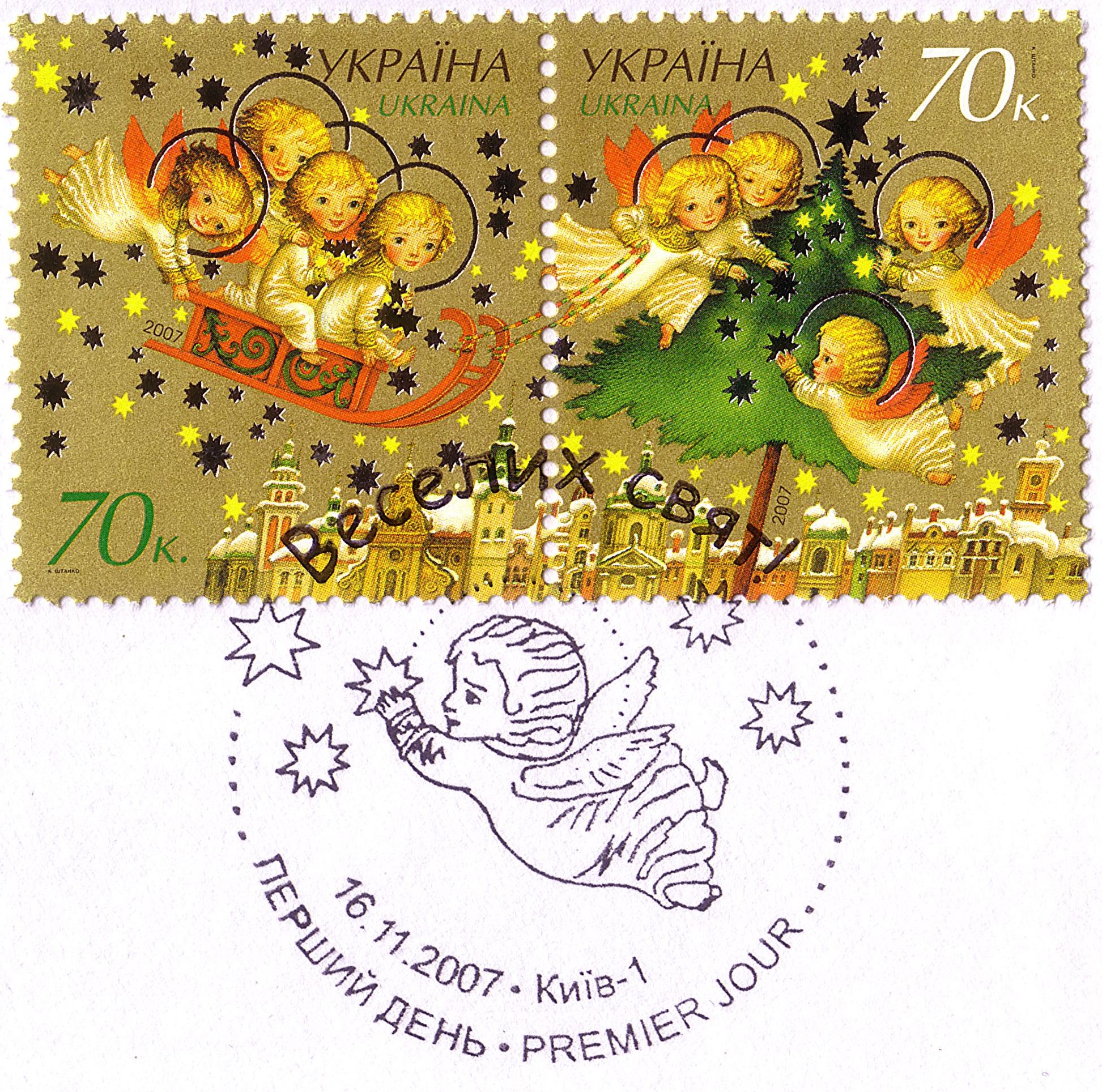 Happy Christmas. Two stamps of Ukraine and a postmark of Kiev-1, 16/11/2007.